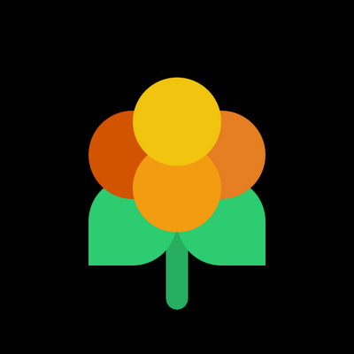 Lakka's logo